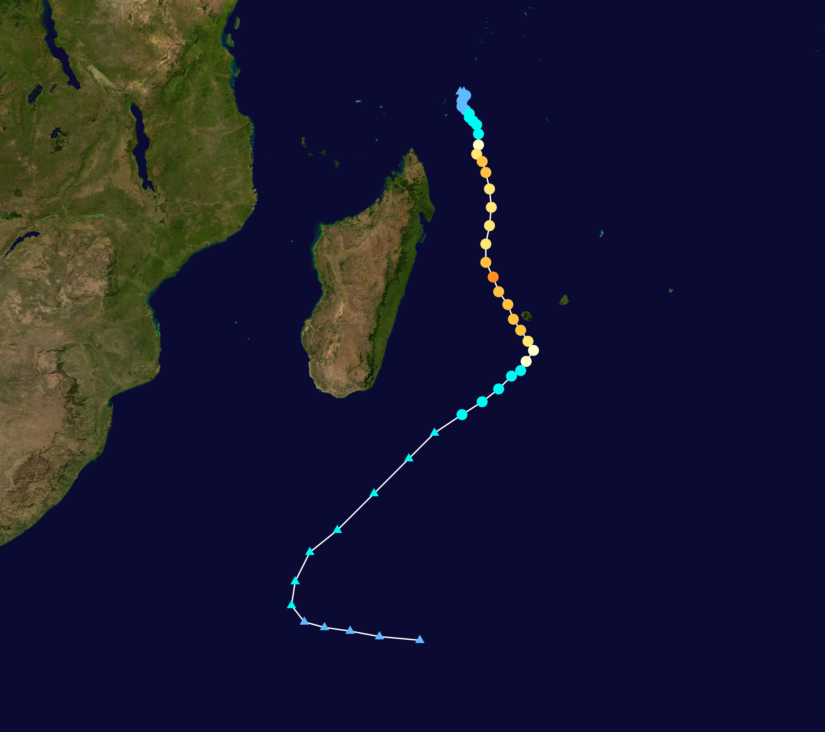 Track map of Intense Tropical Cyclone Bejisa of the 2013–14 South-West Indian Ocean cyclone season. The points show the location of the storm at 6-hour intervals. The colour represents the storm's maximum sustained wind speeds as classified in the Saffir–Simpson scale (see below), and the shape of the data points represent the nature of the storm, according to the legend below. Saffir–Simpson scale Tropical depression≤38 mph≤62 km/h Category 3111–129 mph178–208 km/h Tropical storm39–73 mph63–118 km/h Category 4130–156 mph209–251 km/h Category 174–95 mph119–153 km/h Category 5≥157 mph≥252 km/h Category 296–110 mph154–177 km/h Unknown Storm type Tropical cyclone Subtropical cyclone Extratropical cyclone / Remnant low / Tropical disturbance / Monsoon depression